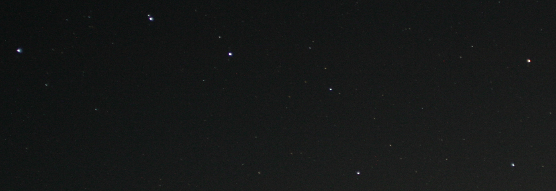 This is a nighttime photograph of Ursa Major (the Big Dipper).